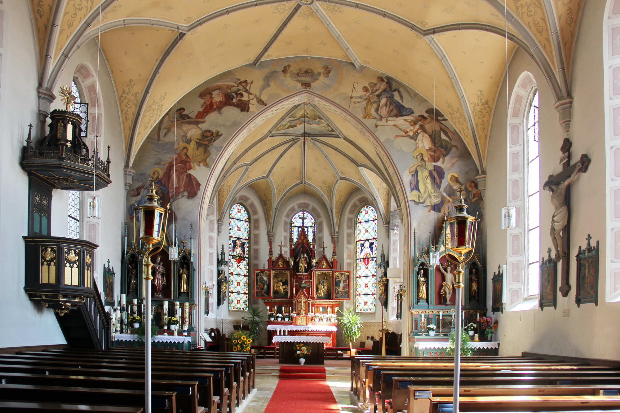 St. Peter's Church Native nameSt. Peter LocationBavaria , GermanyCoordinates48° 28′ 49.98″ N, 11° 42′ 37.08″ E Authority control : Q30311711 VIAF: 307301105 institution QS:P195,Q30311711